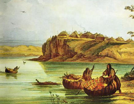 Mandan Bull Boats and Lodges, by Karl Bodmer